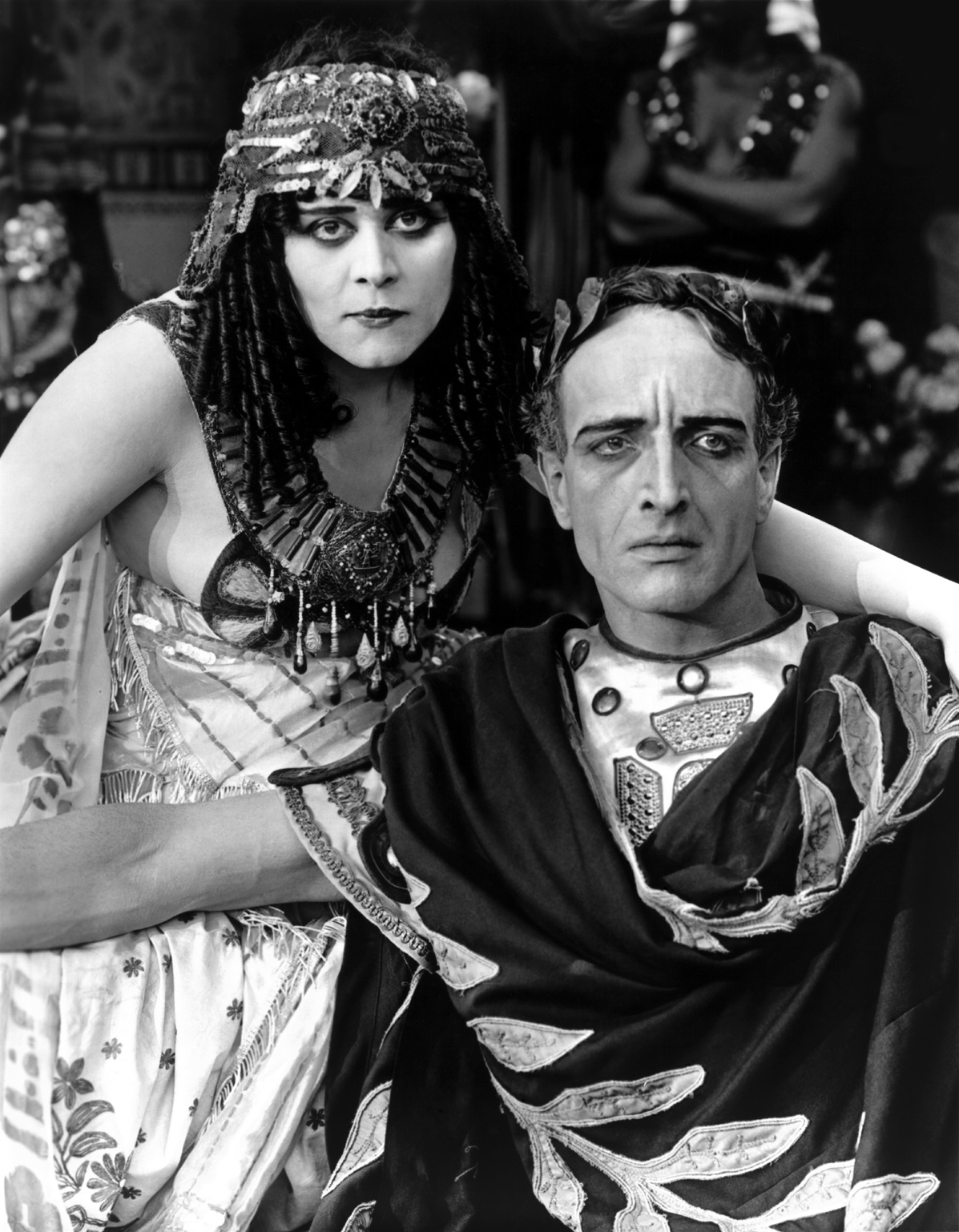 Theda Bara as Cleopatra and Fritz Leiber as Caesar in the lost film Cleopatra (1917).